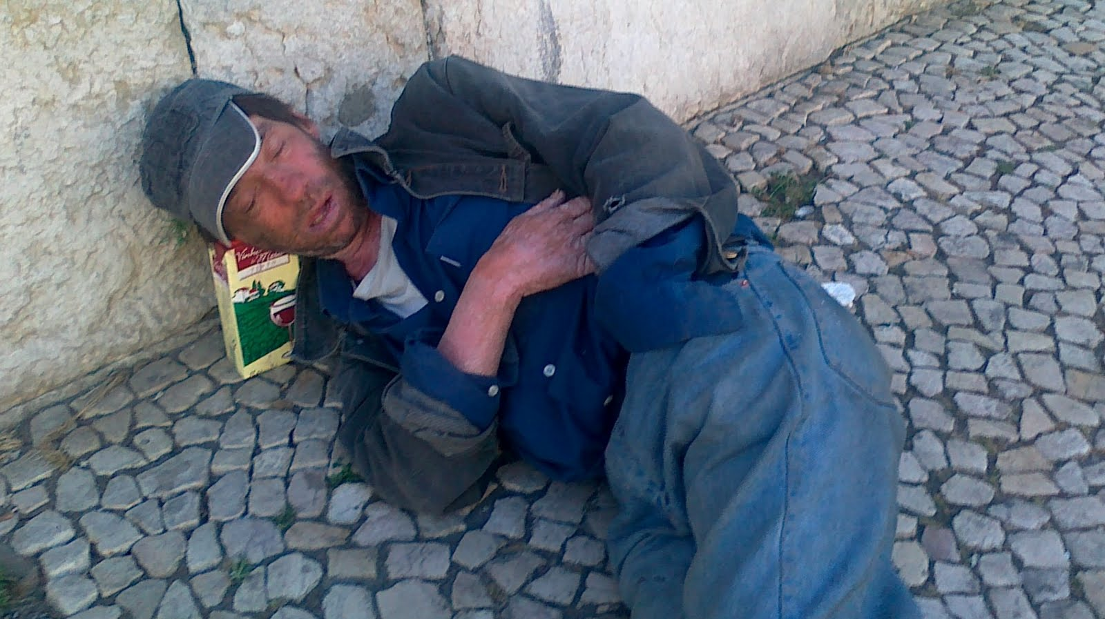 Drunk beggar on down-town Lisbon